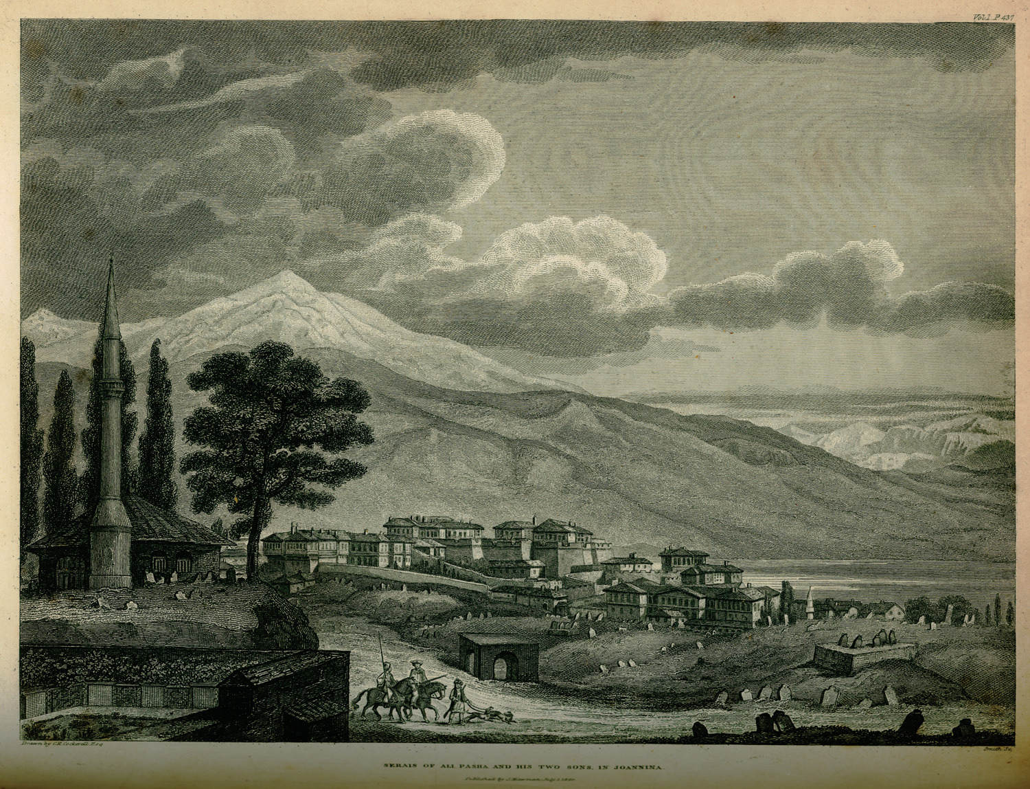 Thomas Smart Hughes, Travels in Sicily Greece and Albania… Illustrated with engravings of maps scenery plans, vol. I, London, J. Mawman, 1820.